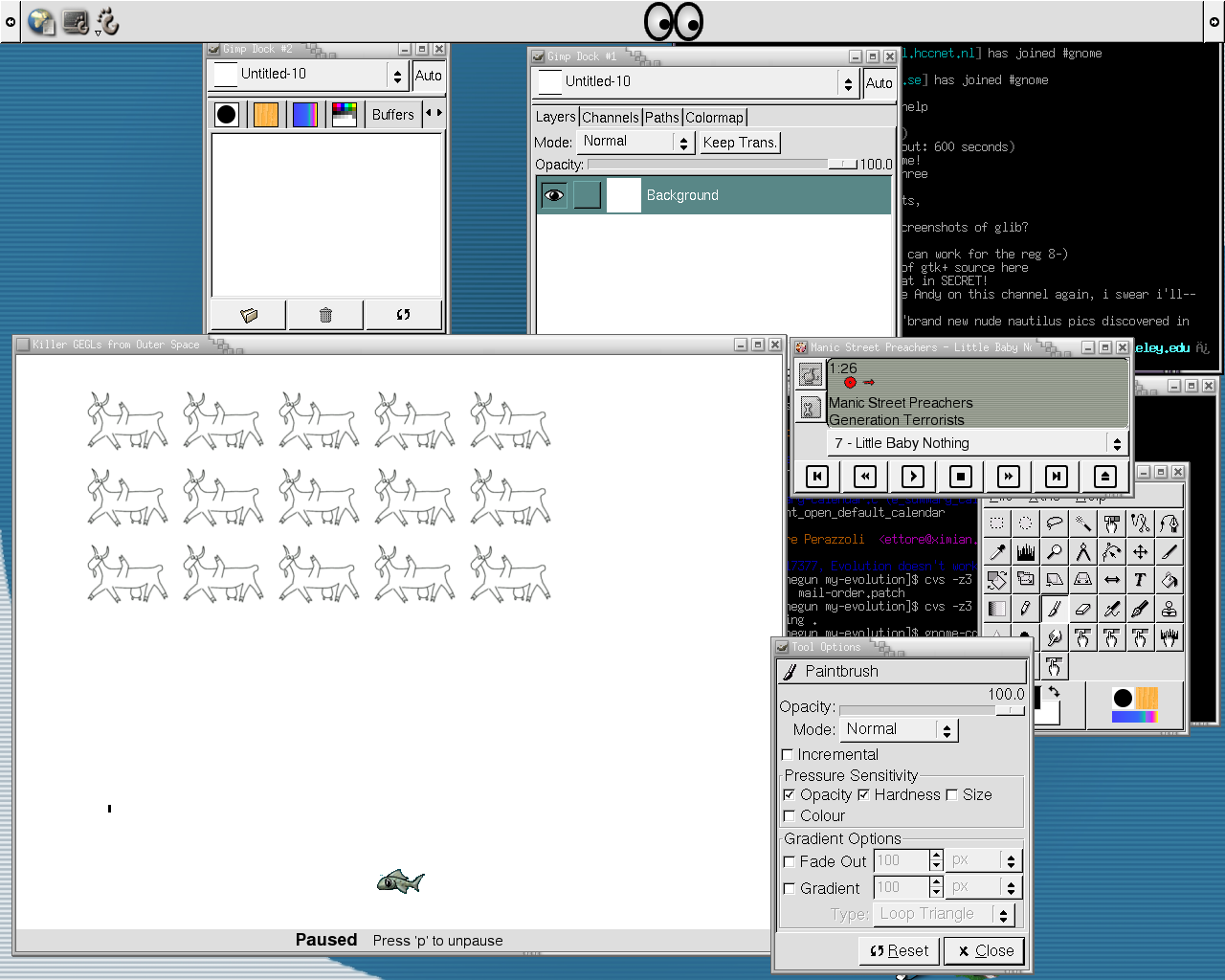 GEGL invaders a classic easter egg, gimp-1.3 and an antique by now GNOME desktop.